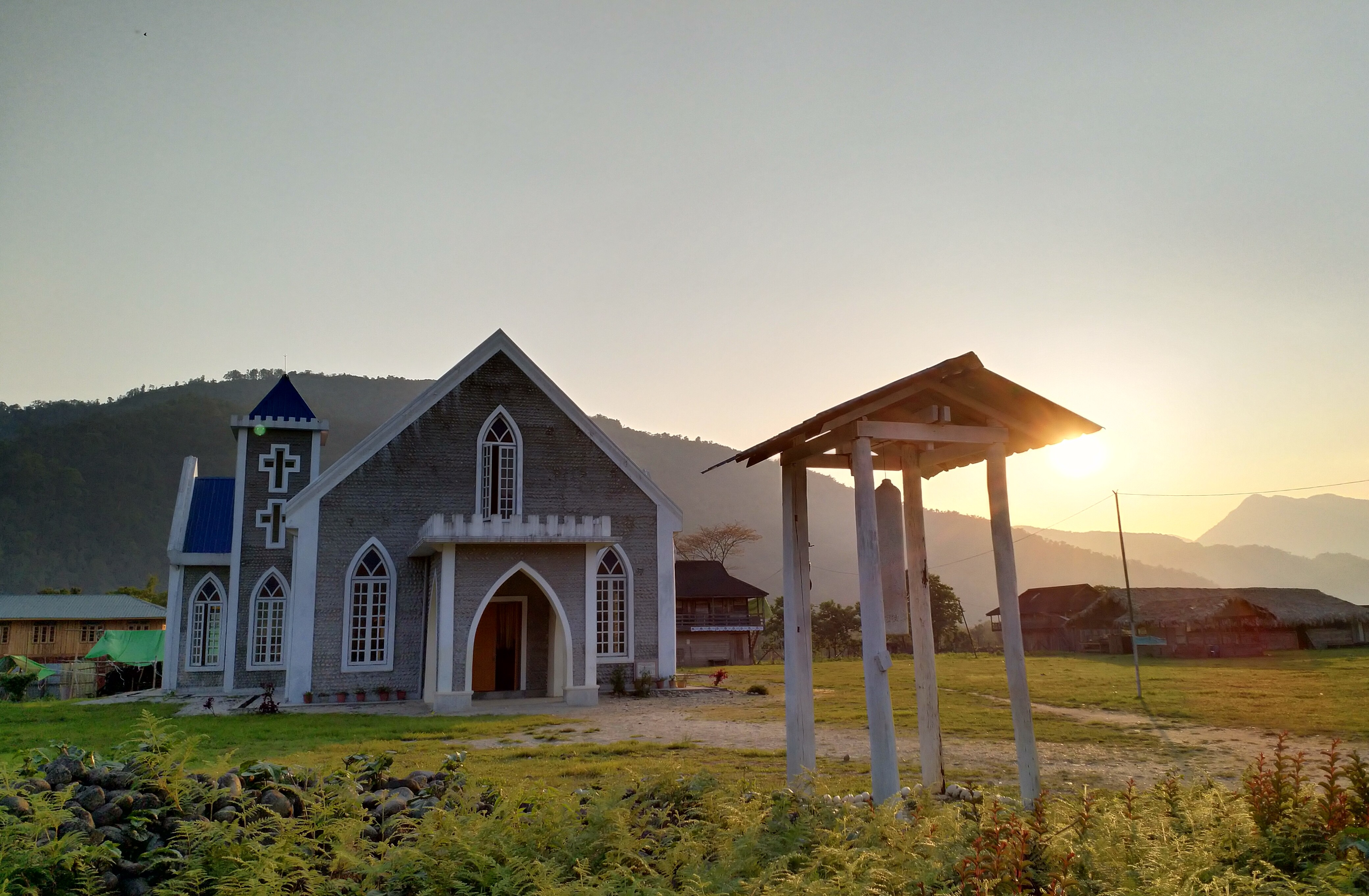 This Church is located in the center Nogmung Town